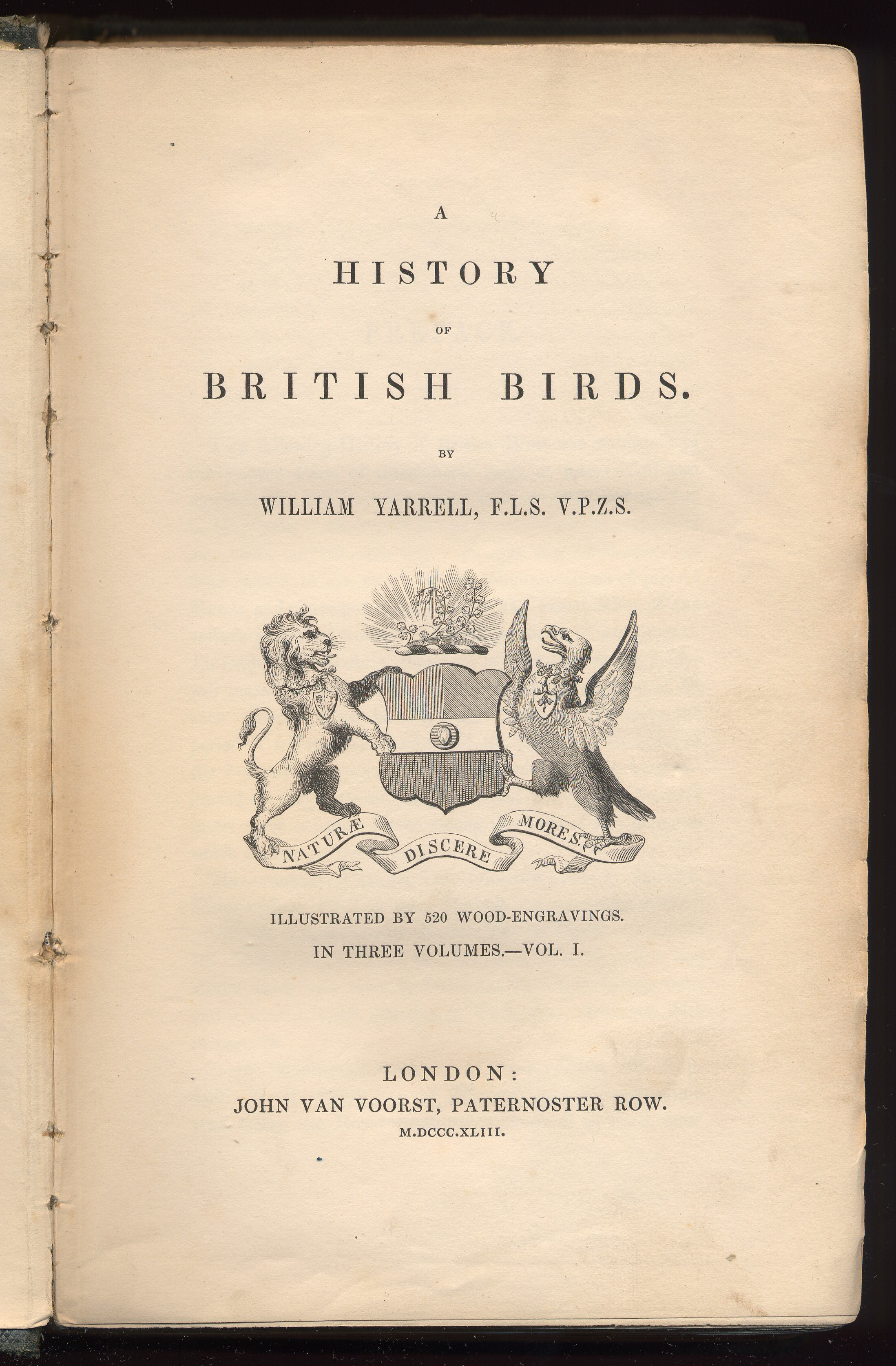 Title Page, Yarrell History of British Birds 1843 (1st Edition, volume 1)